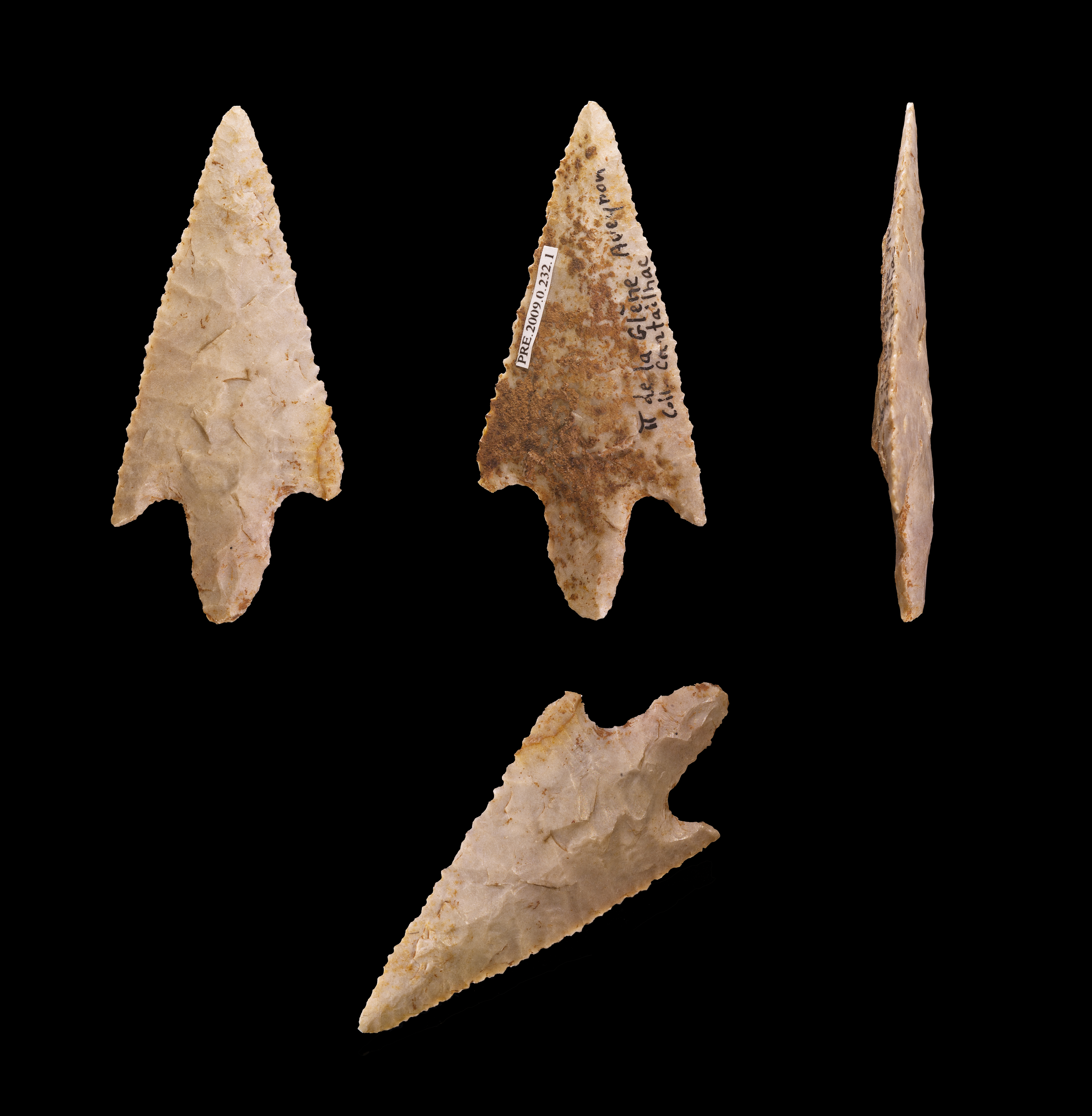 Arrowhead in Chert. Different views of the same specimen Stage : Later Neolithic (Rhodézien) (to – 3300 to - 2400 Before the Current Era) Locality : Dolmen de la Glène, Saint-Léons, Aveyron, France Former collection of Émile Cartailhac (1845 - 1921) Size : 58x27x7 mm